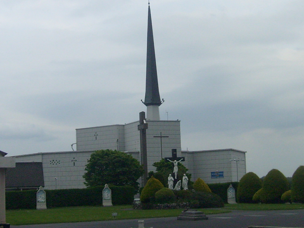 Our Lady of Knock Basilica, Co Mayo, Éire